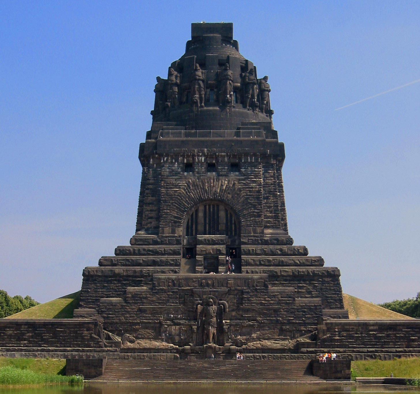 Picture of the Battle Of The Nations-Monument in Leipzig, Germany.